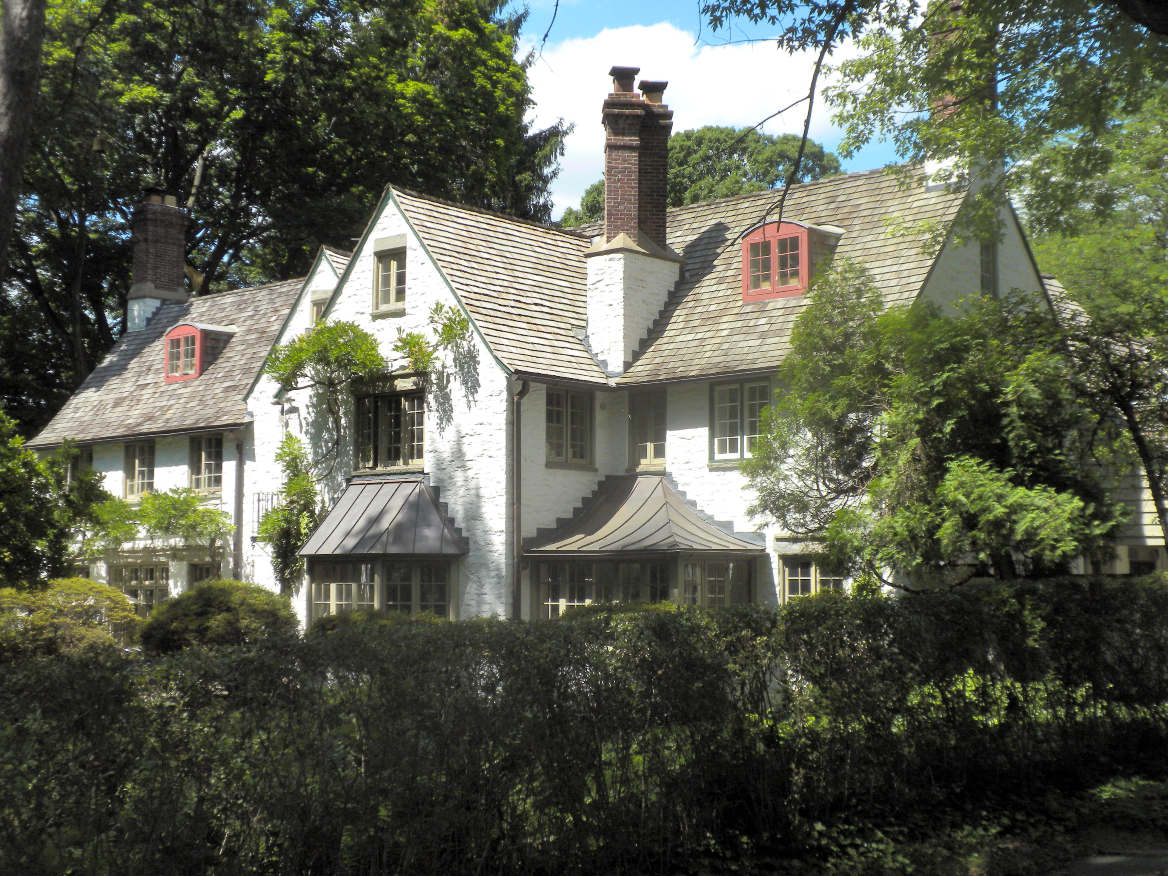 Violet Oakley Studio on the NRHP since September 13, 1977. At 627 St. George's Road in Mount Airy neighborhood of NW Philadelphia. Pennsylvania Historical and Museum Commission marker is in front of this house, 621. The next house on the street is 631. There is a private drive between the 2, so the actual studio may be behind this building (if the apparent contradiction of the sources is forced to be resolved)